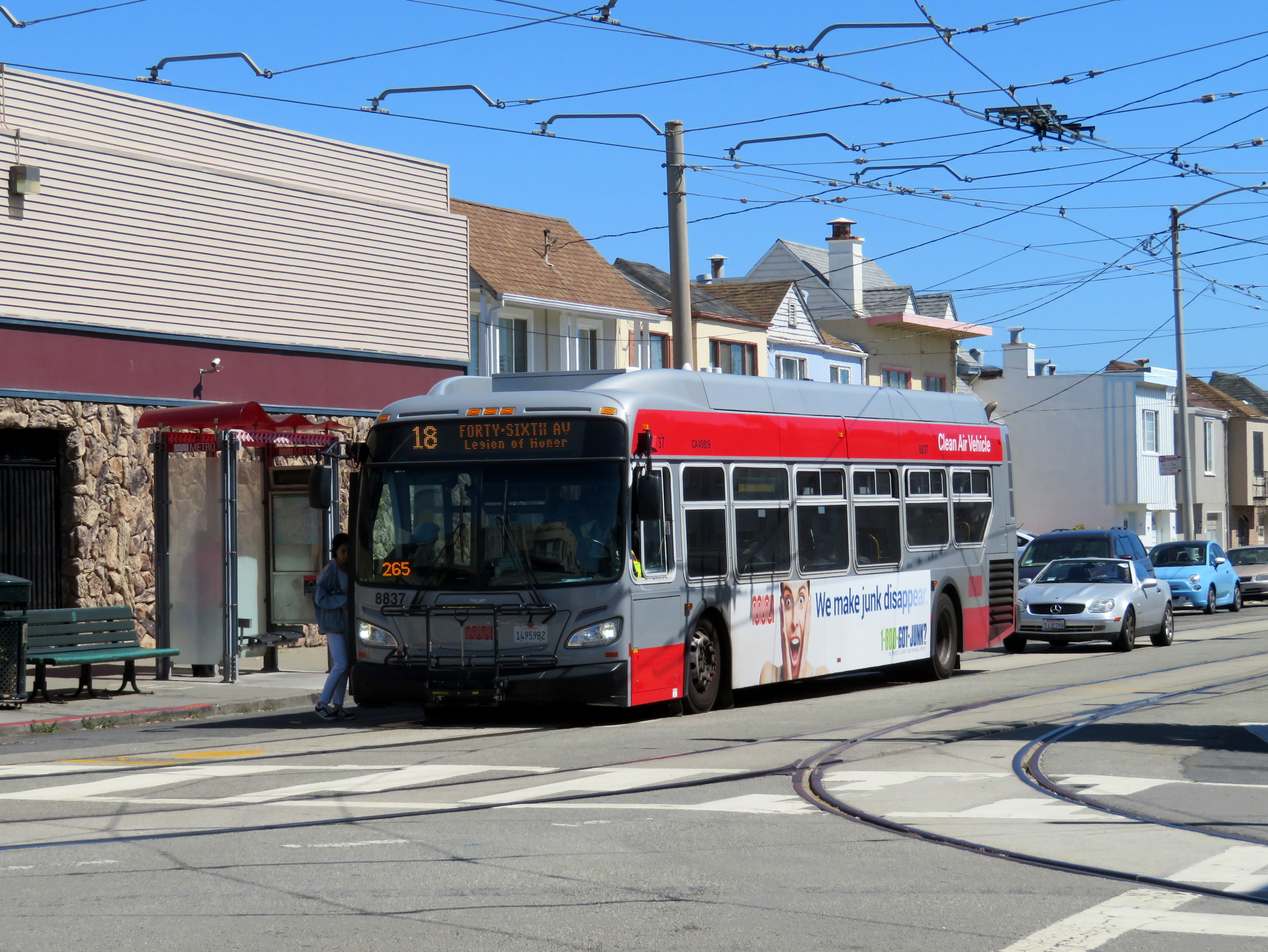 Muni 18-46th Avenue bus northbound on 46th Avenue at Taraval in June 2018